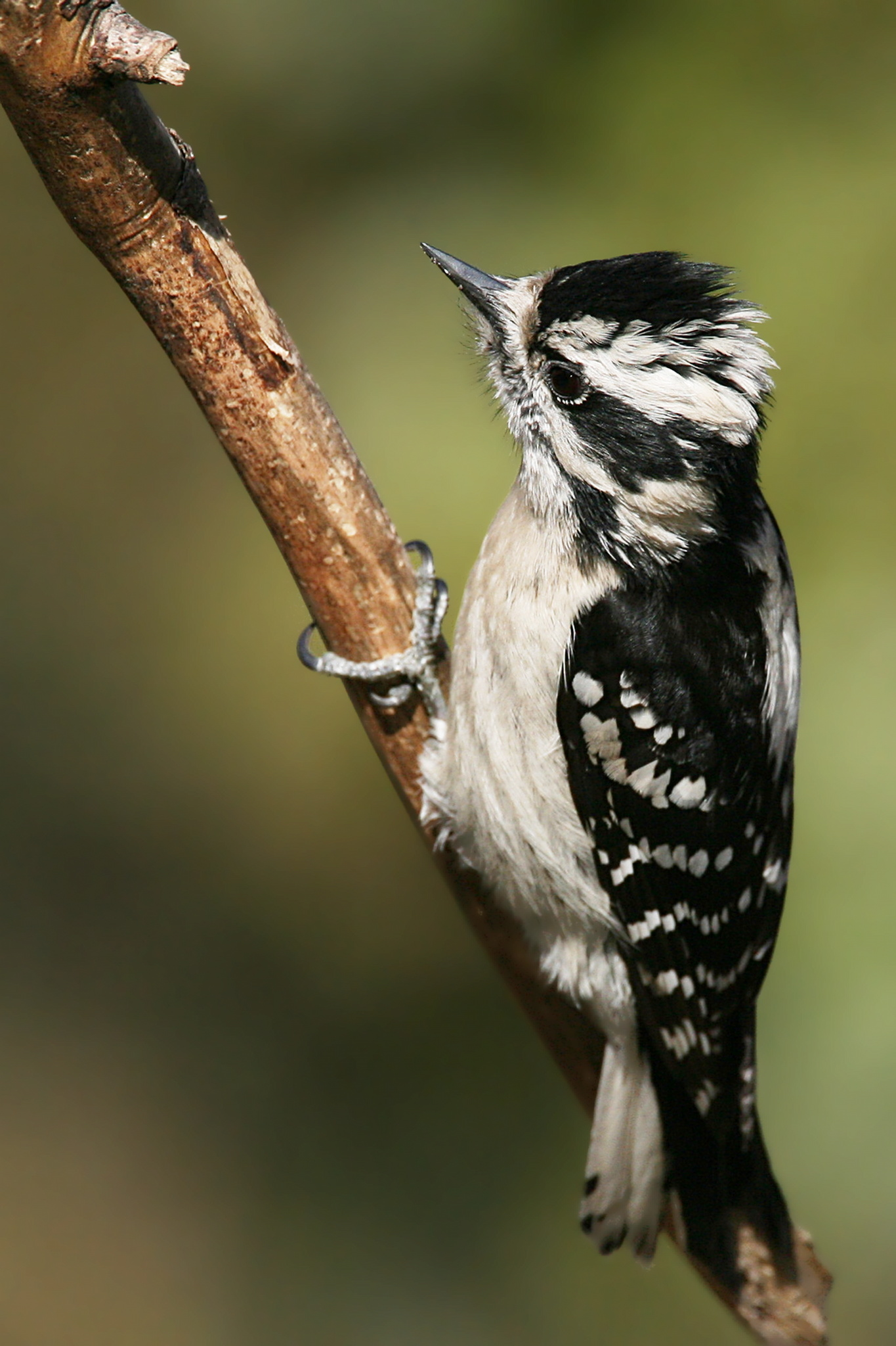 A female Downy Woodpecker, Picoides pubescens, in Poquott, Long Island